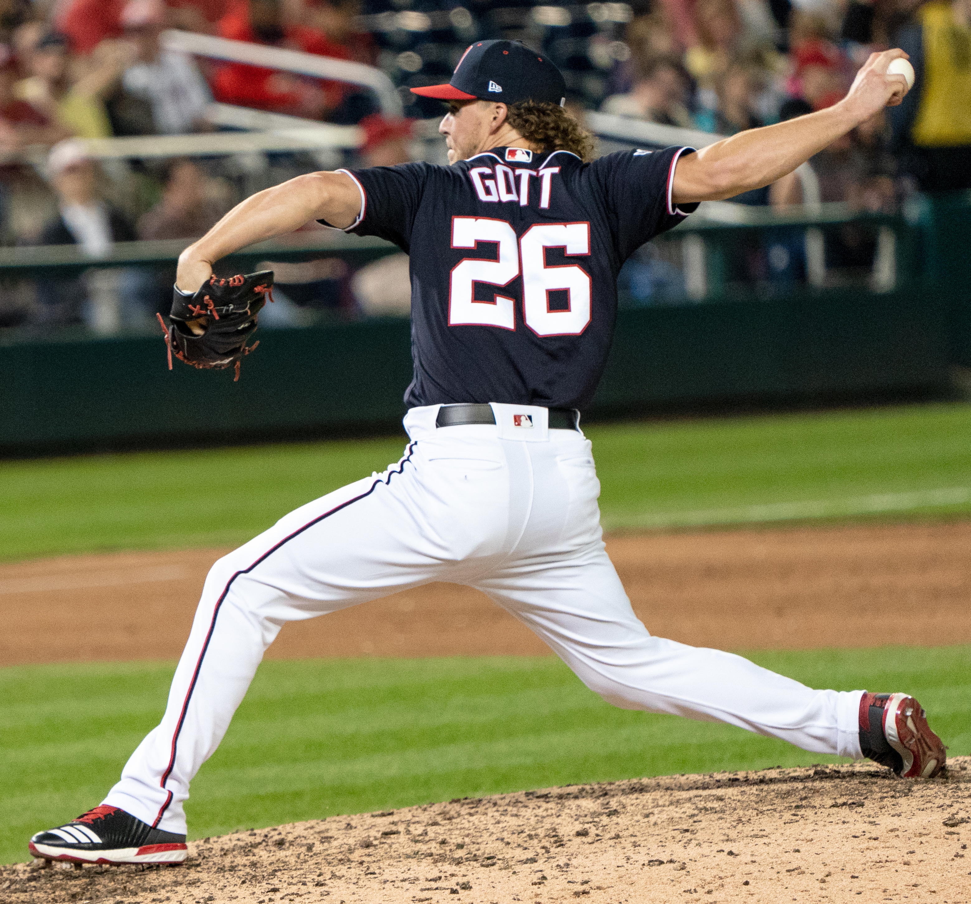 Trevor Gott delivers a pitch for the Washington Nationals during a 2018 game